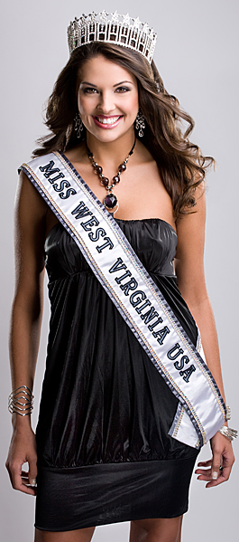 Crown and banner photo of Miss West Virginia USA 2009